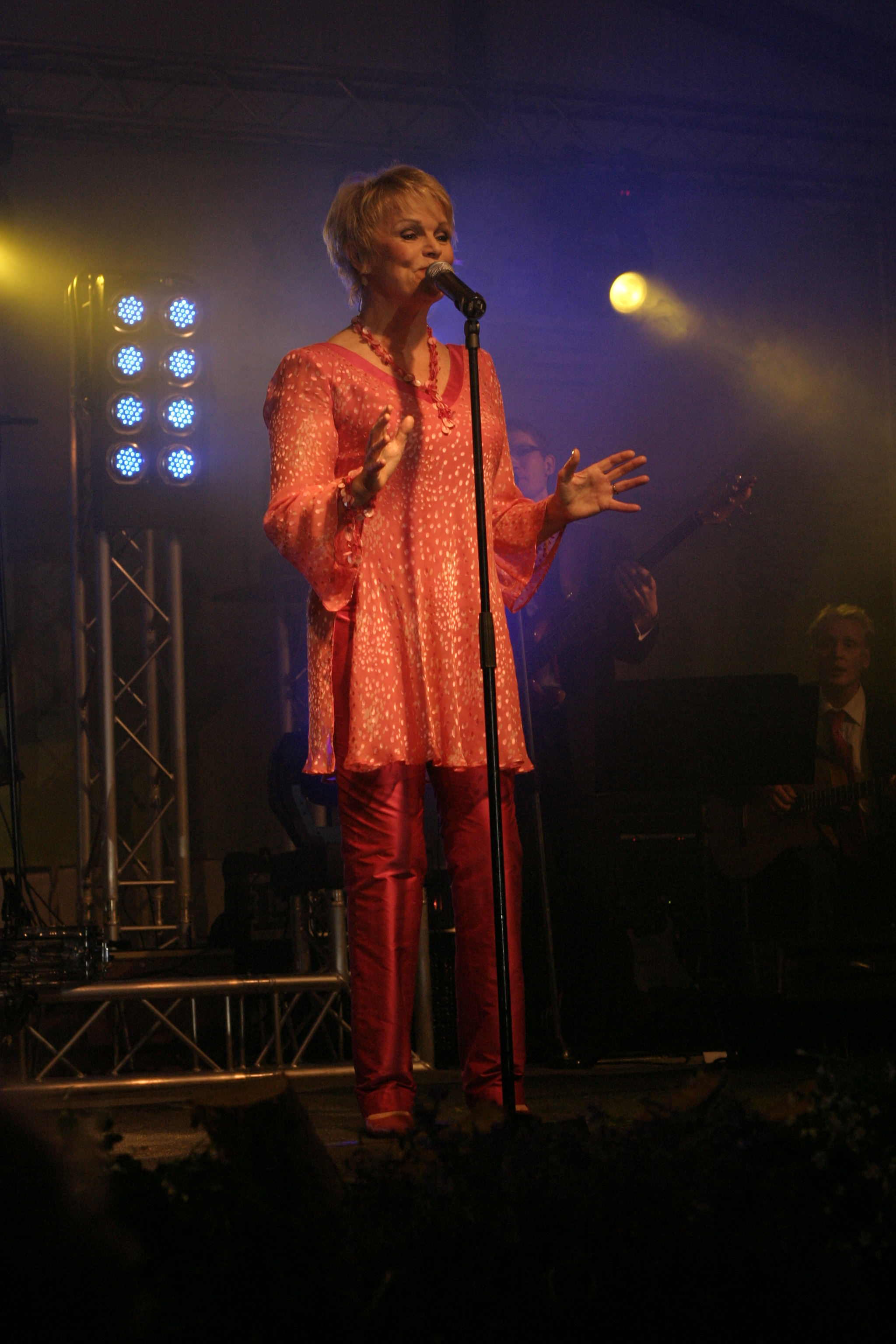 Katri Helena in Vihreät Niityt music festival in the summer 2007.